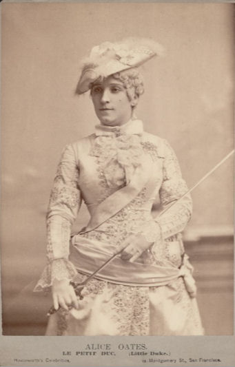 The American actress Alice Oates (1849-1887) in 'Le petit duc' (c1876)